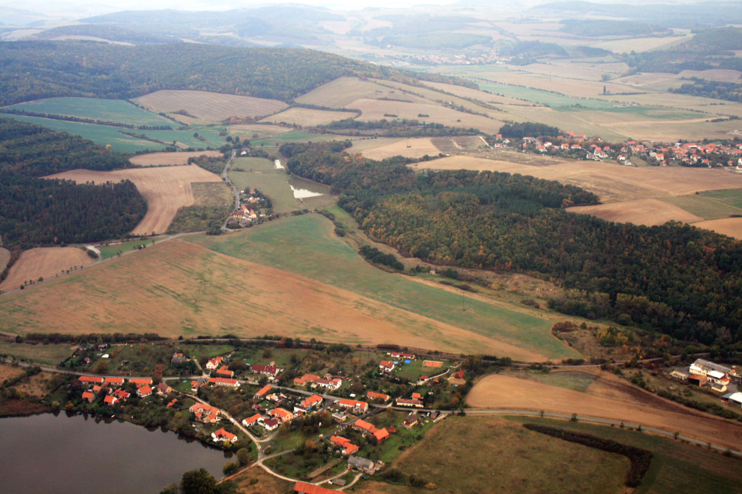 Air photo of Leč, part of small town Liteň, in central Bohemia, Czech Republic